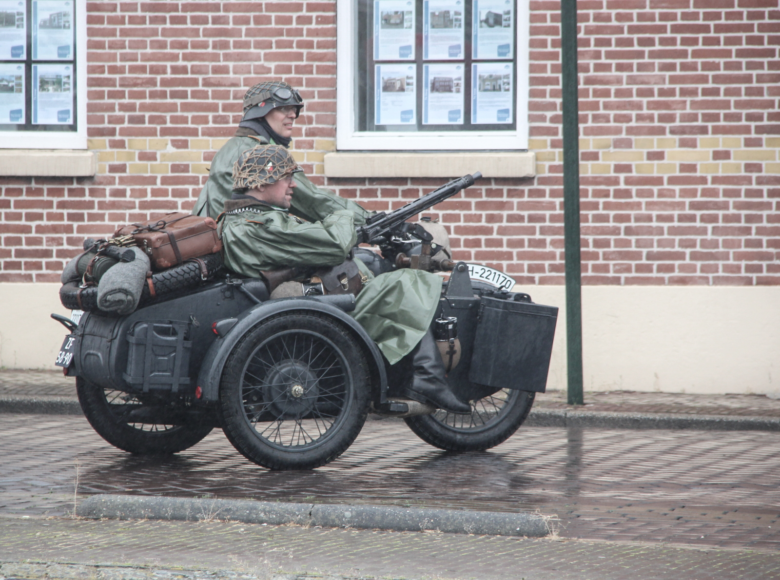 Wehrmacht reenactors on a motorcycle with sidecar mounted MG 42 machine gun. Liberation festival Brielle 2015.